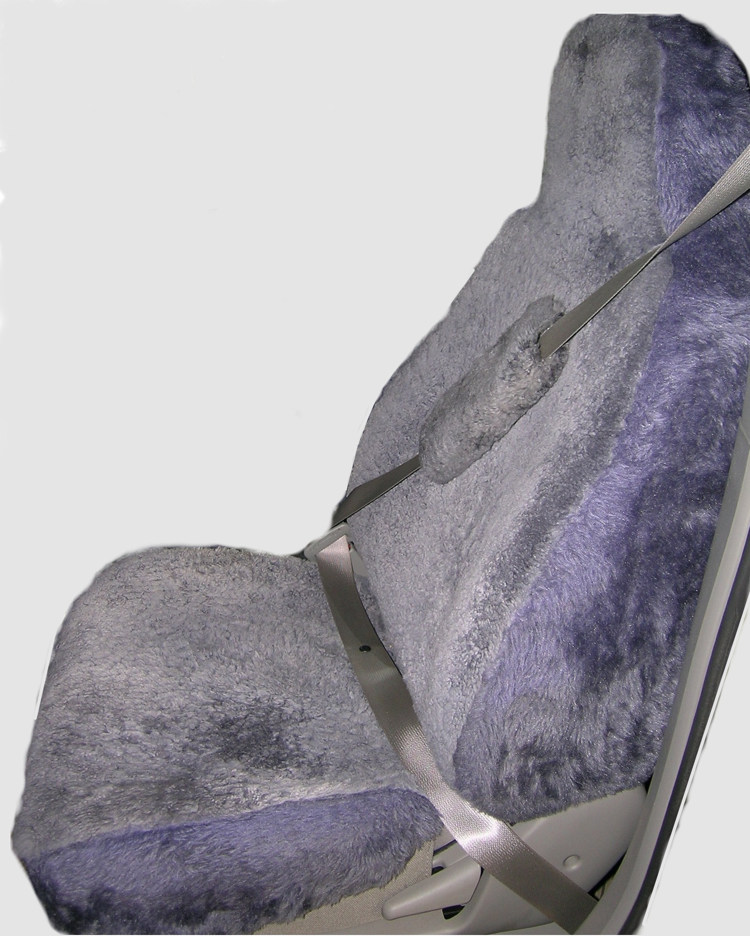 A sheepskin seat cover and seatbelt cover. The sides of the seat cover have been made from a synthetic material.